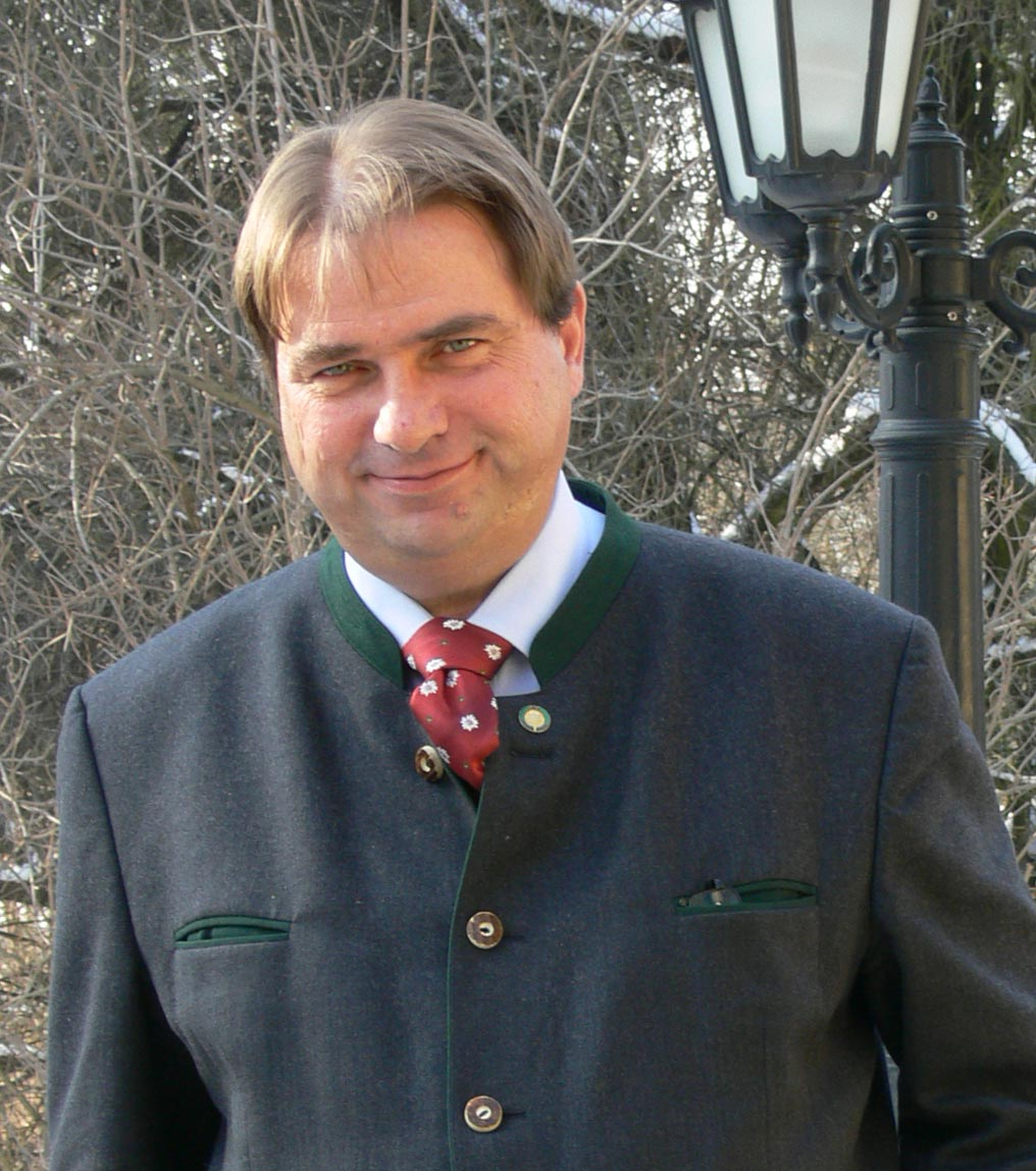 Tamás Marghescu, current Director-General of the CIC